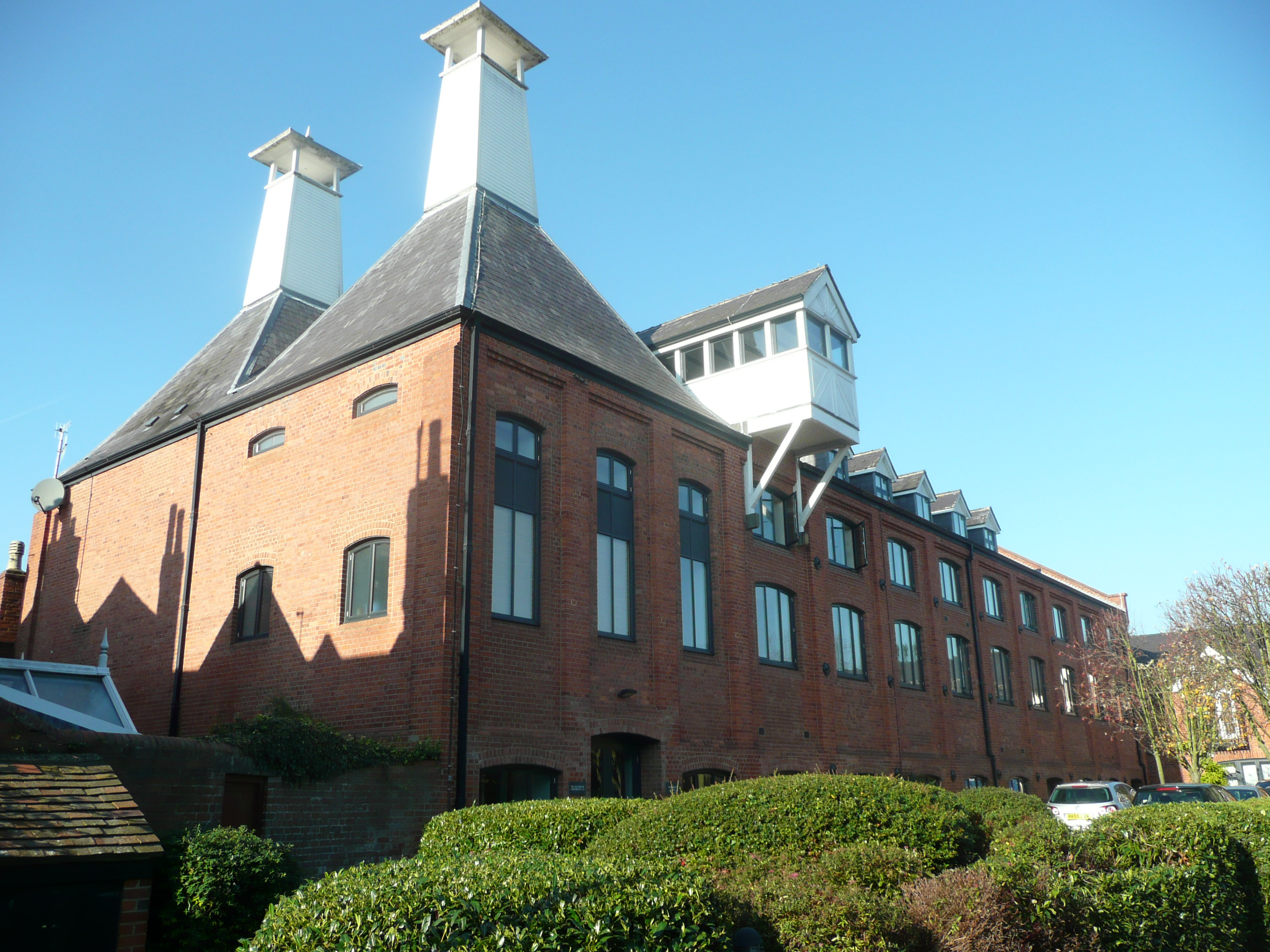 Brakspear Brewery. New Street, Henley. Built 1897. The Brewery had been on this site since 1812 when it closed in 2002 with the brewery business sold to Refresh UK owners of Wychwood Brewery. The Brewery has been converted to a hotel and homes.